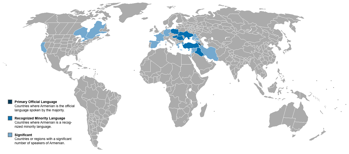 Map showing regions where the Armenian language is spoken.